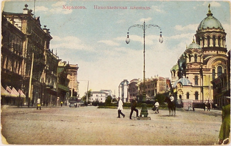 Nikolaevskaya Square and Nikolaevsky Cathedral in Kharkov, Russian Empire